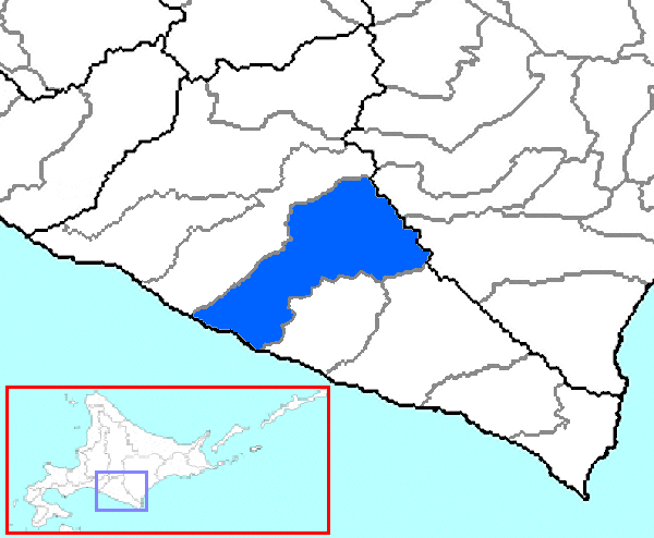 from 'Erimo_in_Hidaka_Subprefecture.gif'